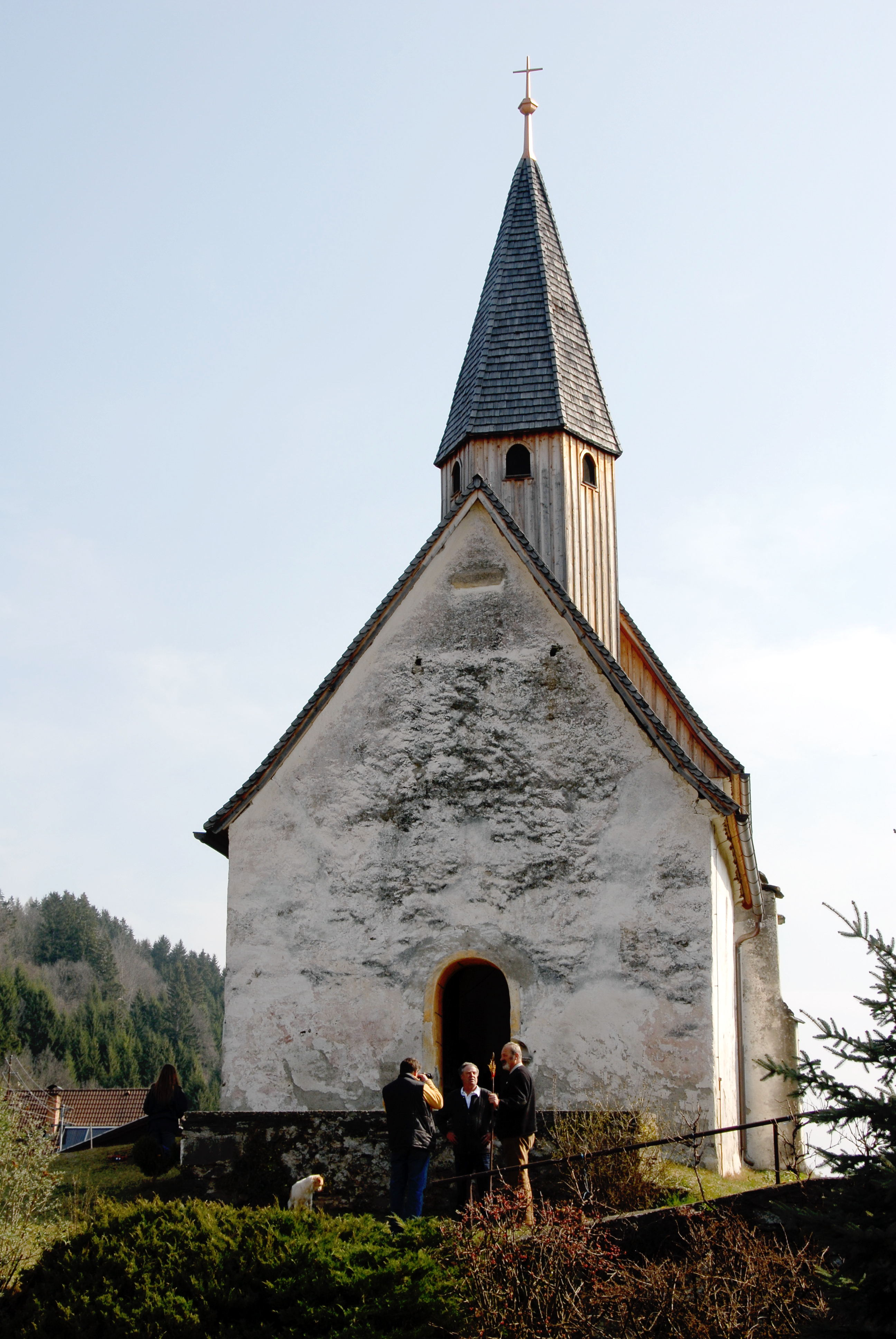 Subsidiary church Saint Leonard in Saint Leonhard, market town Liebenfels, district St. Veit an der Glan, Carinthia, Austria, EU